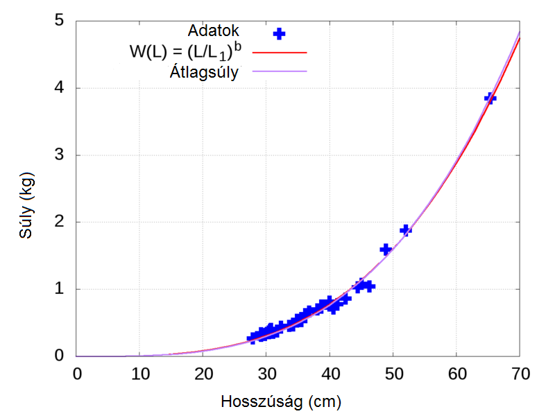 Weight vs. Length curve for channel catfish.